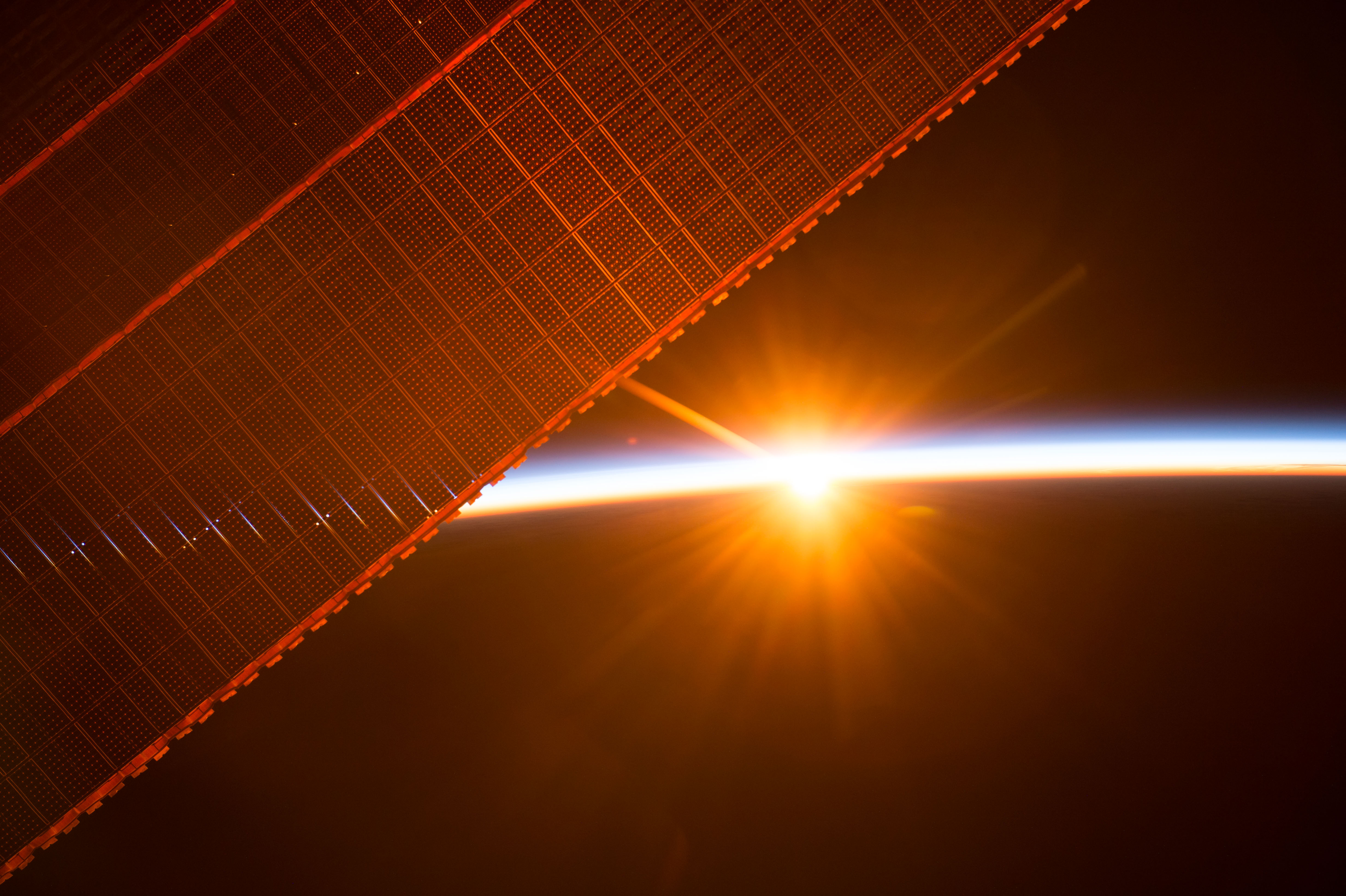 On July 26, 2017, a member of the Expedition 52 crew aboard the International Space Station took this photograph of one of the 16 sunrises they experience every day, as the orbiting laboratory travels around Earth. One of the solar panels that provides power to the station is seen in the upper left. The station's solar arrays produce more power than it needs at one time for station systems and experiments. When the station is in sunlight, about 60 percent of the electricity that the solar arrays generate is used to charge the station's batteries. The batteries power the station when it is not in the Sun.